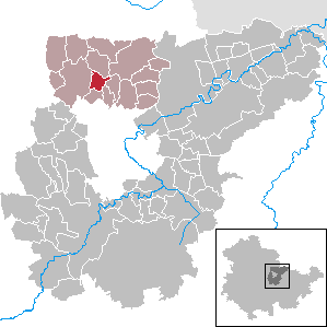 Ramsla in Thuringia - District Weimarer Land